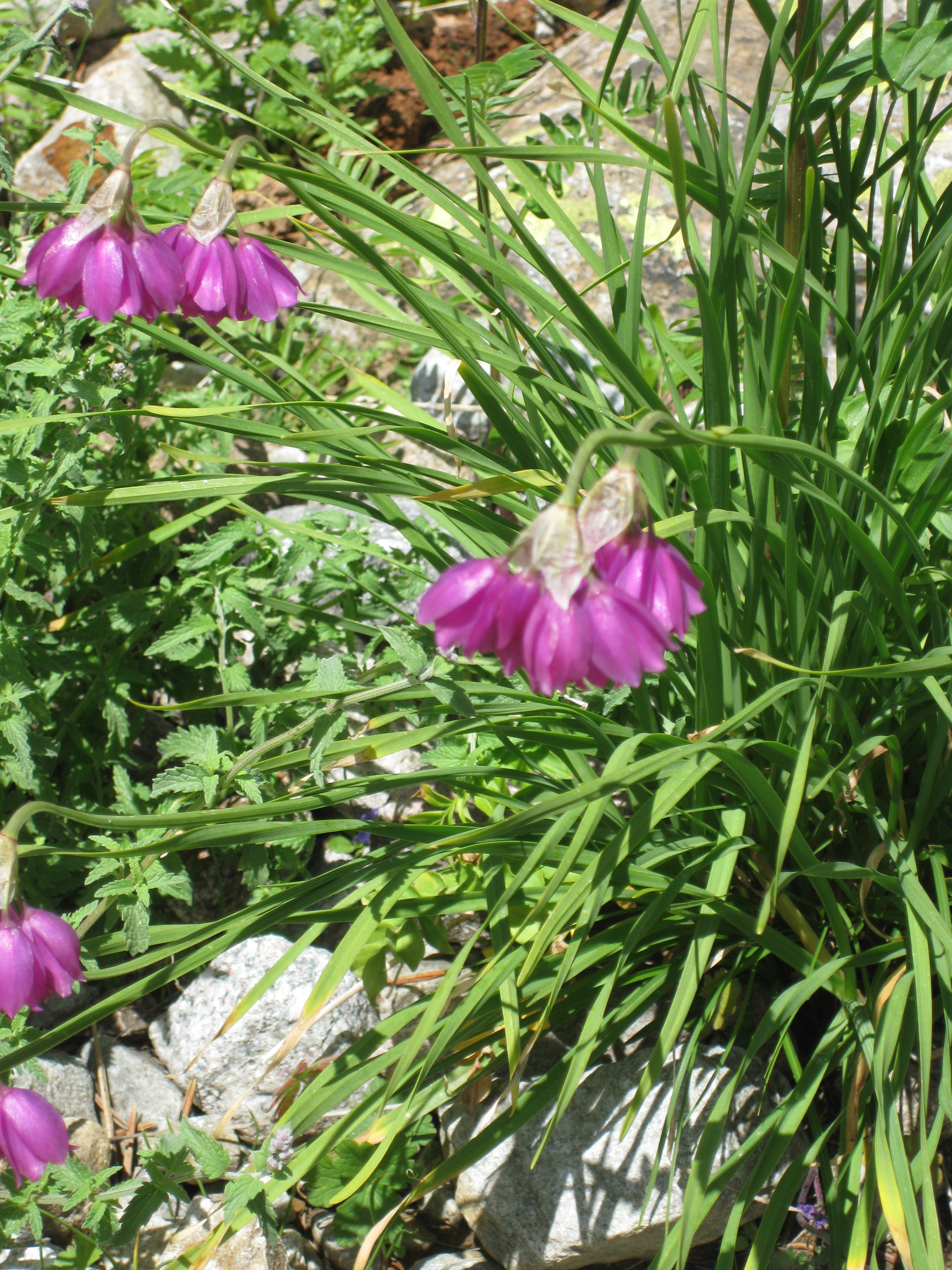 Allium insubricum in the Jardin Botanique Alpin du Lautaret